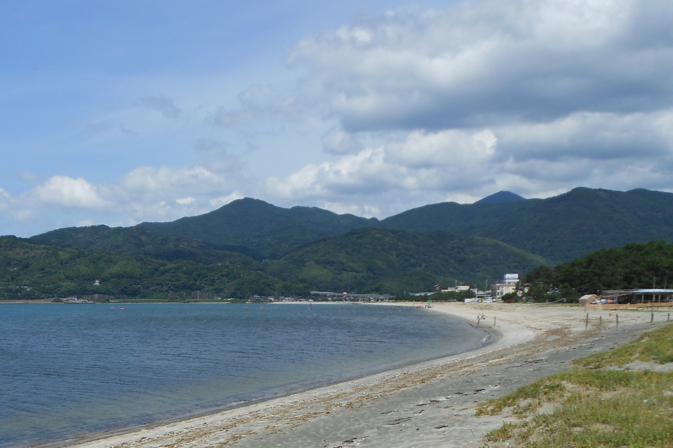 Hamasaki beach, in Hamatama, Karatsu city, Saga prefecture, Japan.